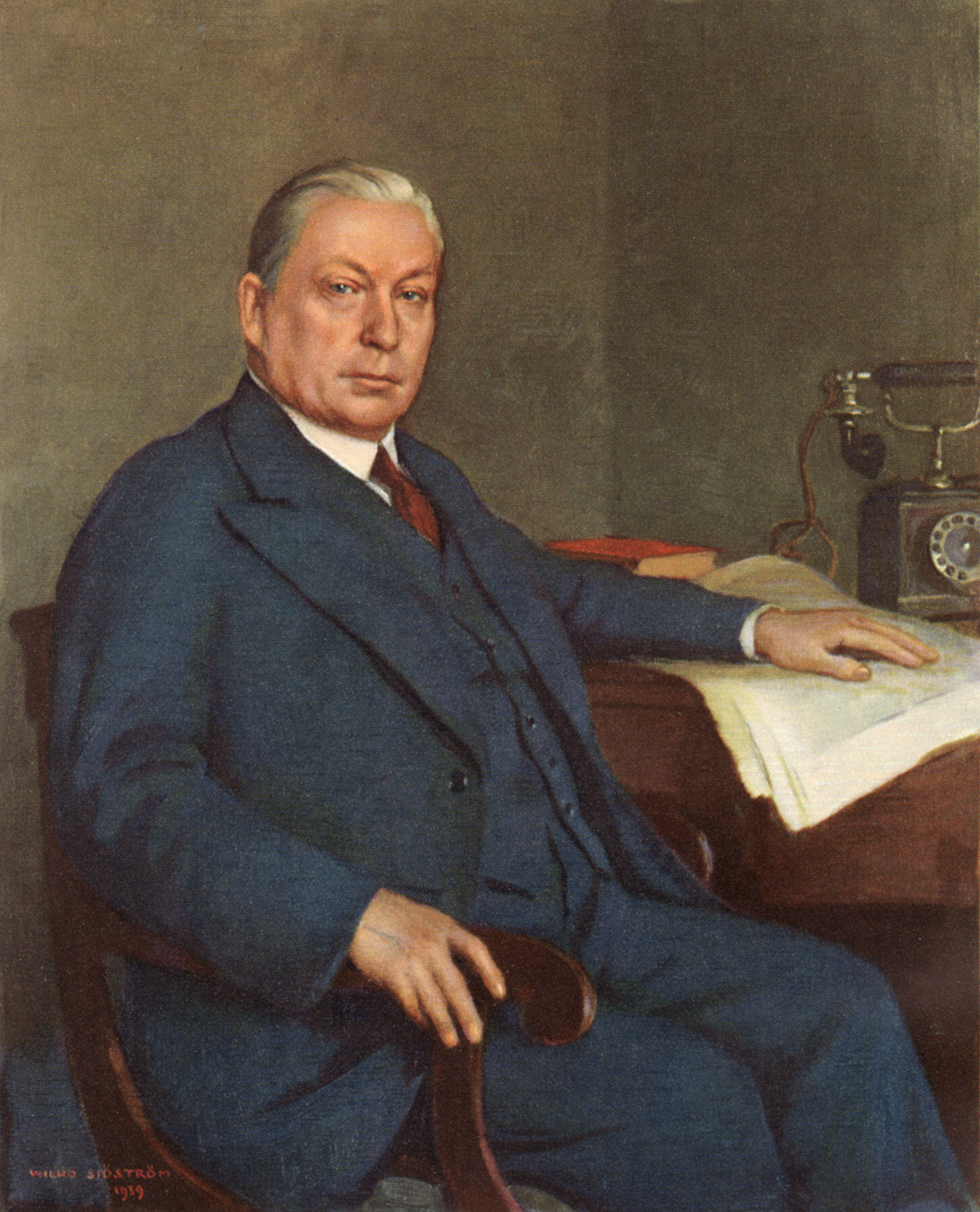 The file is a scan of a print in the commemorative publication published September 3, 1948, when Amos Anderson turned 70.